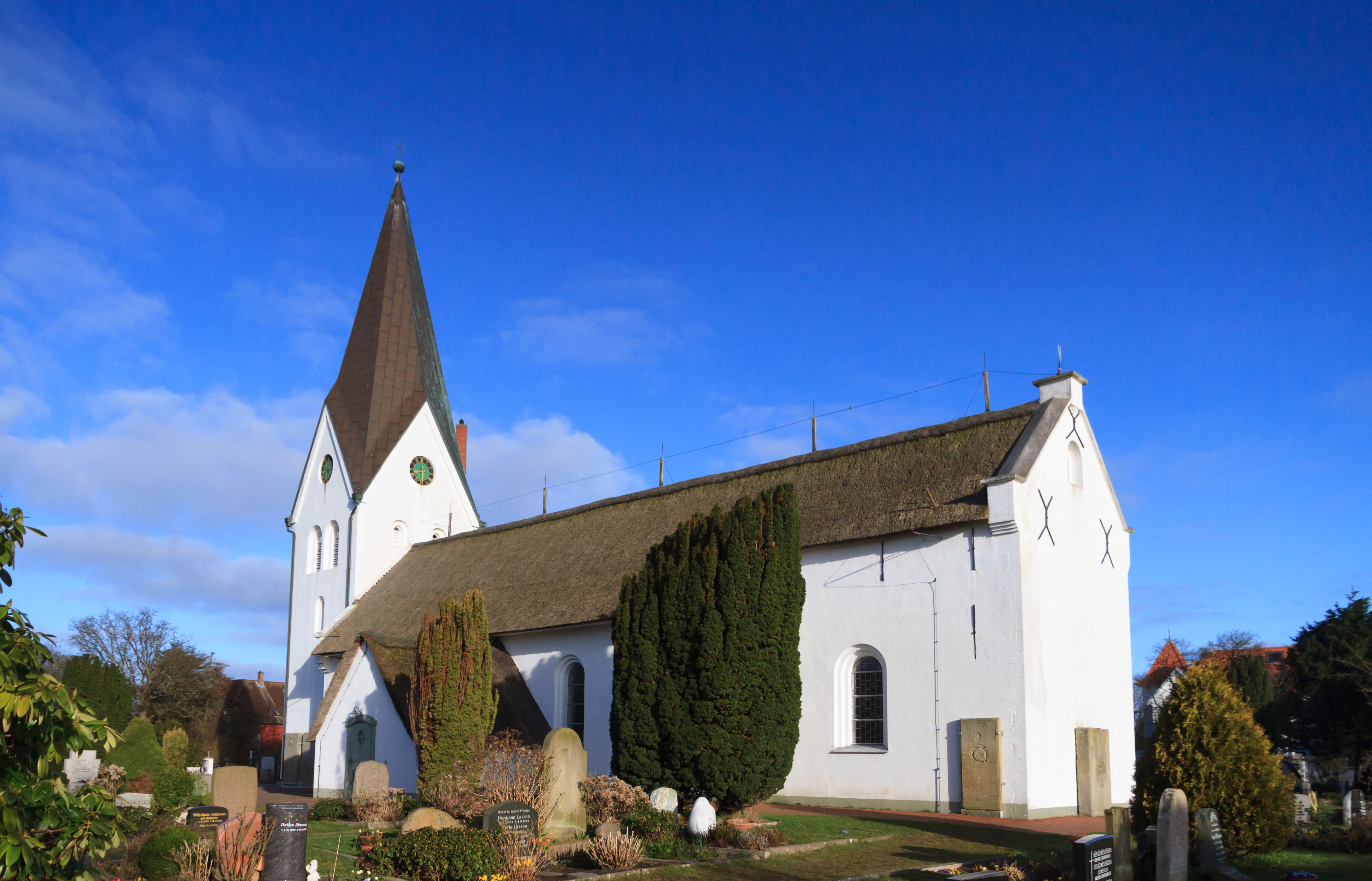 St. Clemens (Nebel)